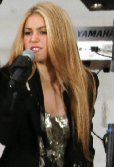 Usher, Stevie Wonder and Shakira at the Obama inauguration, 2009